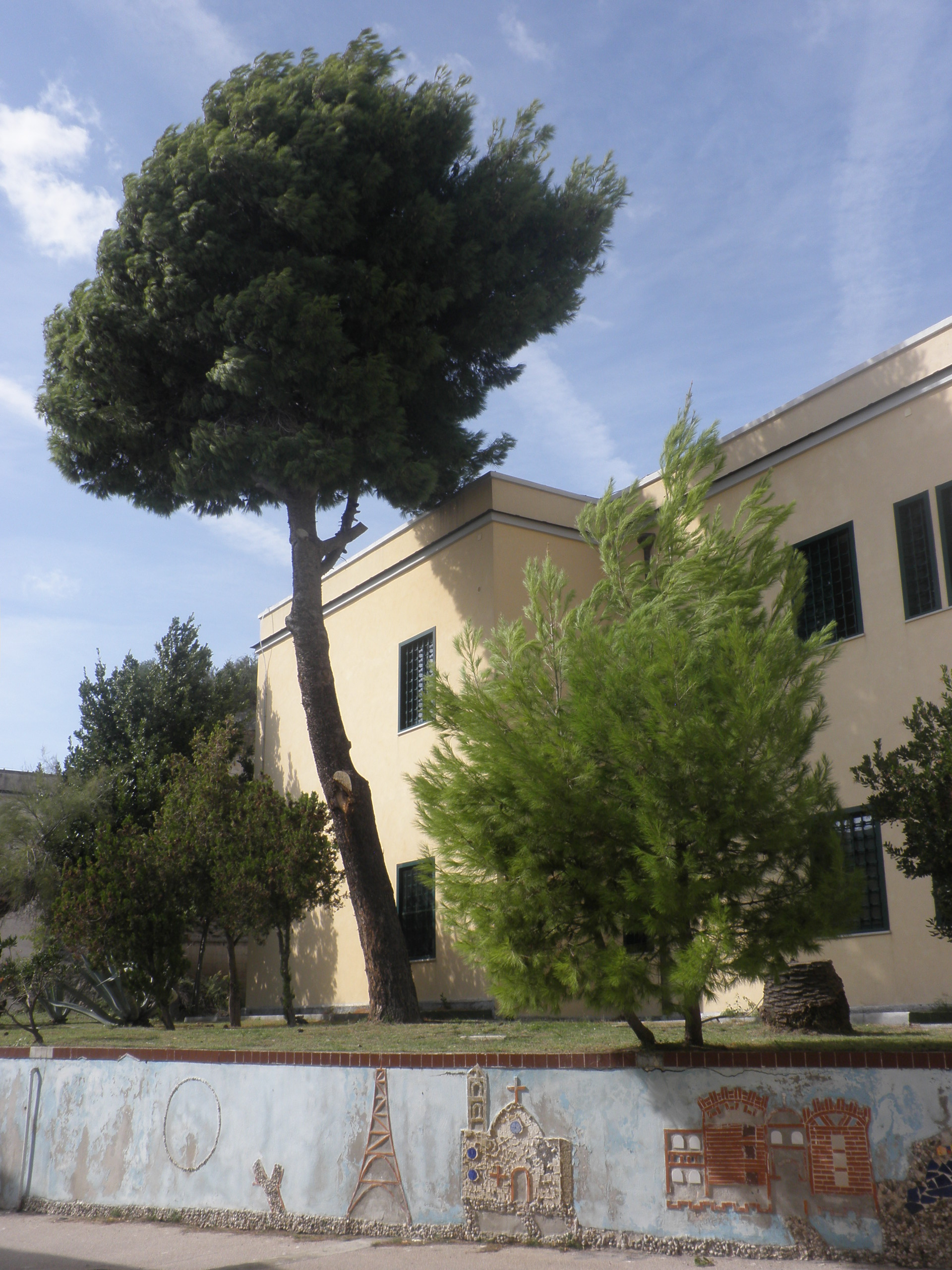 Nisida, jail (carcere) for minors